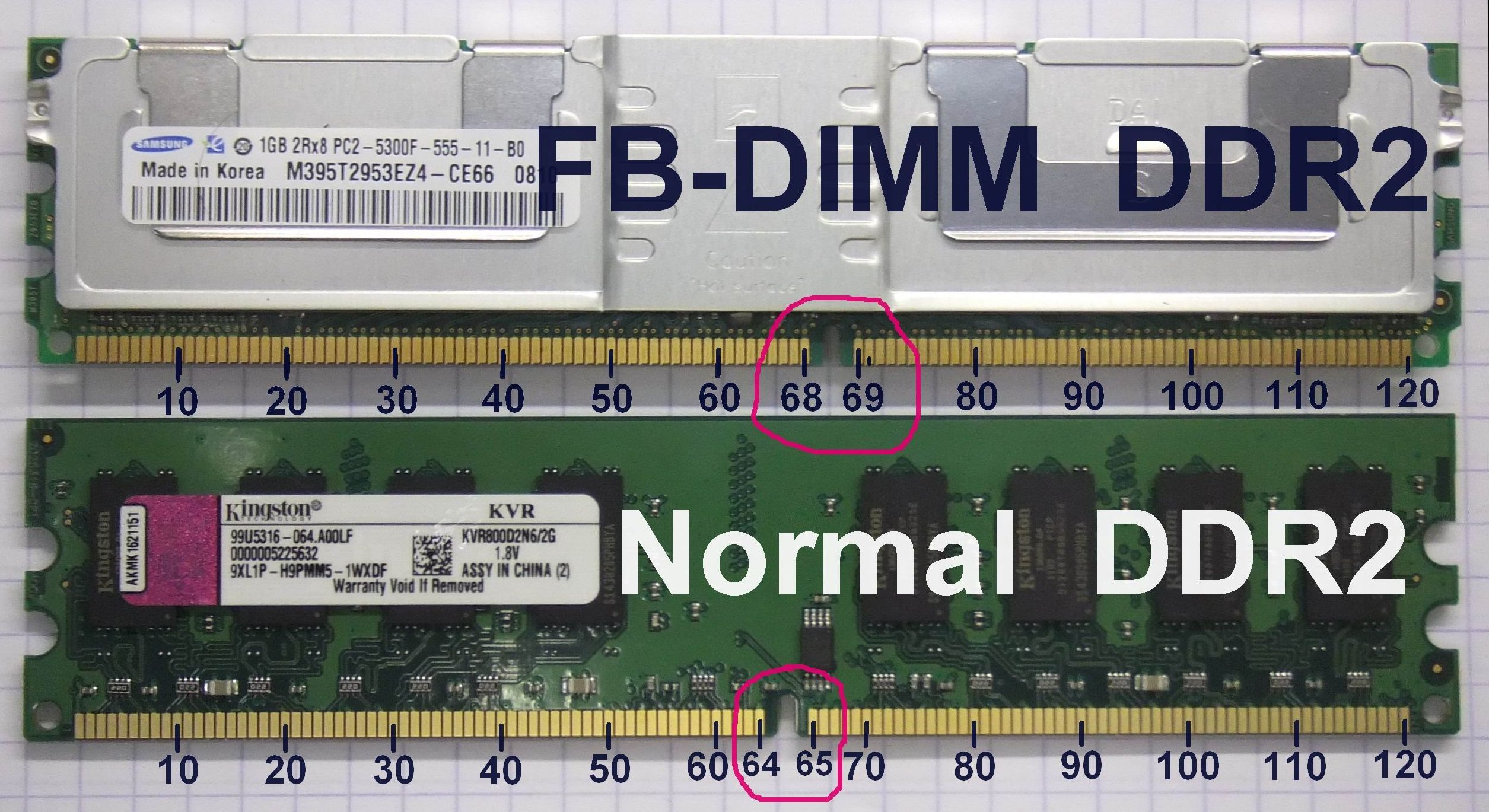 On this photo FB-DIMM DDR2 memory attached to DDR2 memory to show that notch shifted.